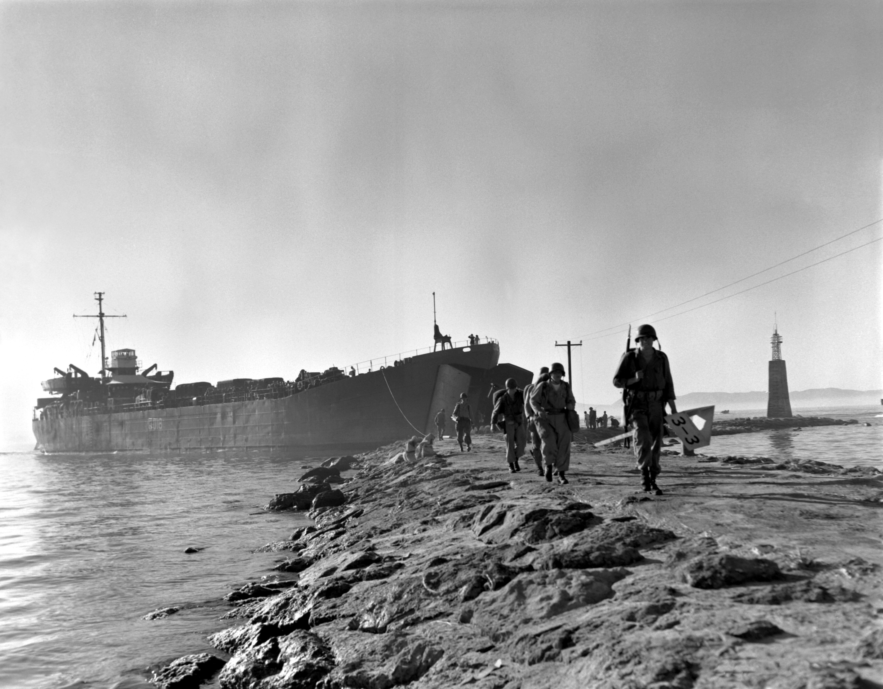 WAR IN KOREA: Troops of the 1st CAV Div land at P'ohang-Dong, Korea. NARA FILE#: 111-SC-343656